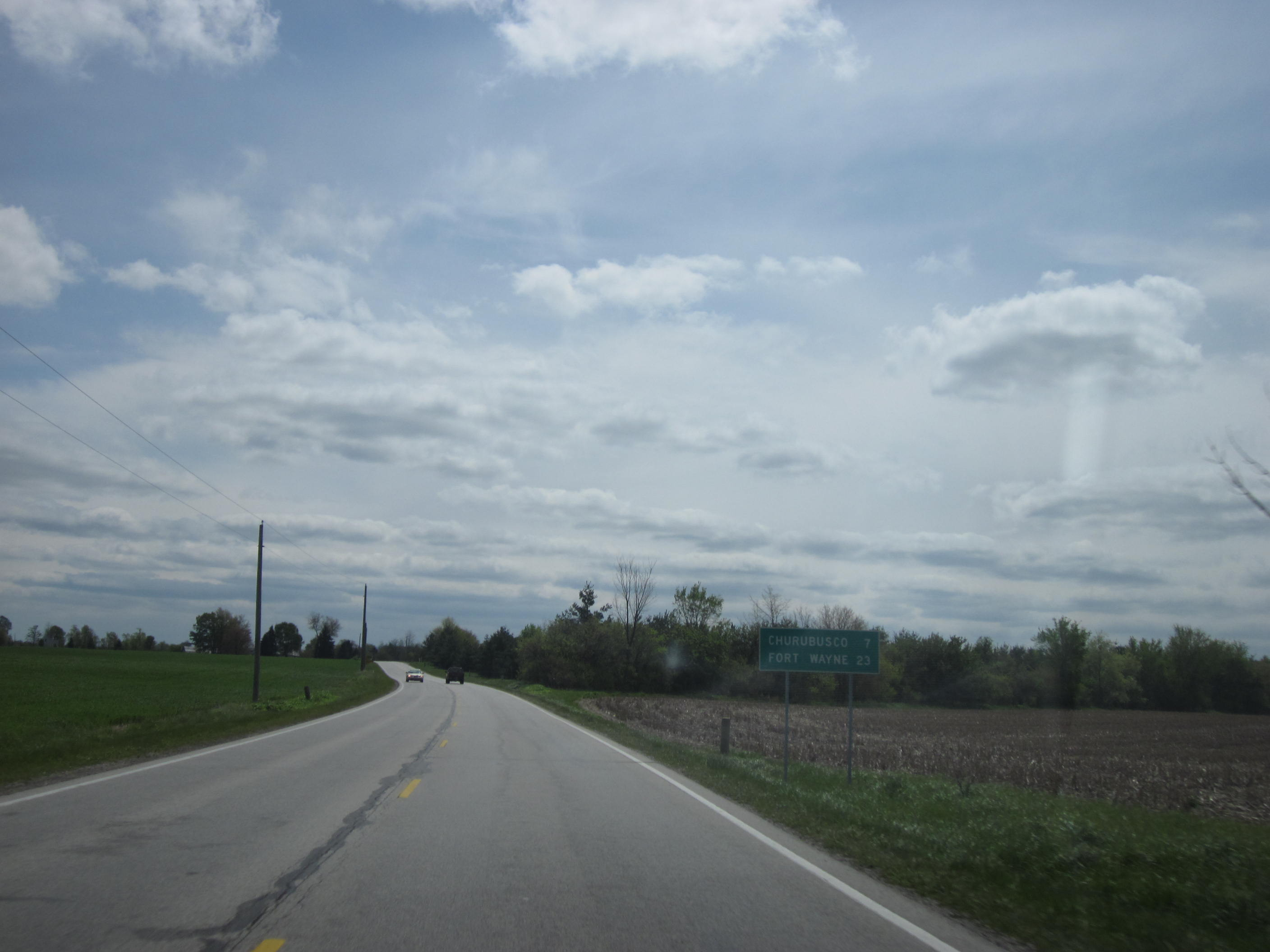 US Route 33 in Indiana south of State Road 9